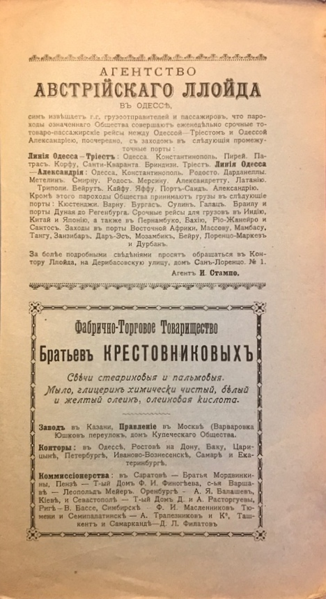 Advertizement of the Agent of the Austrian Lloyd in Odessa (1902)